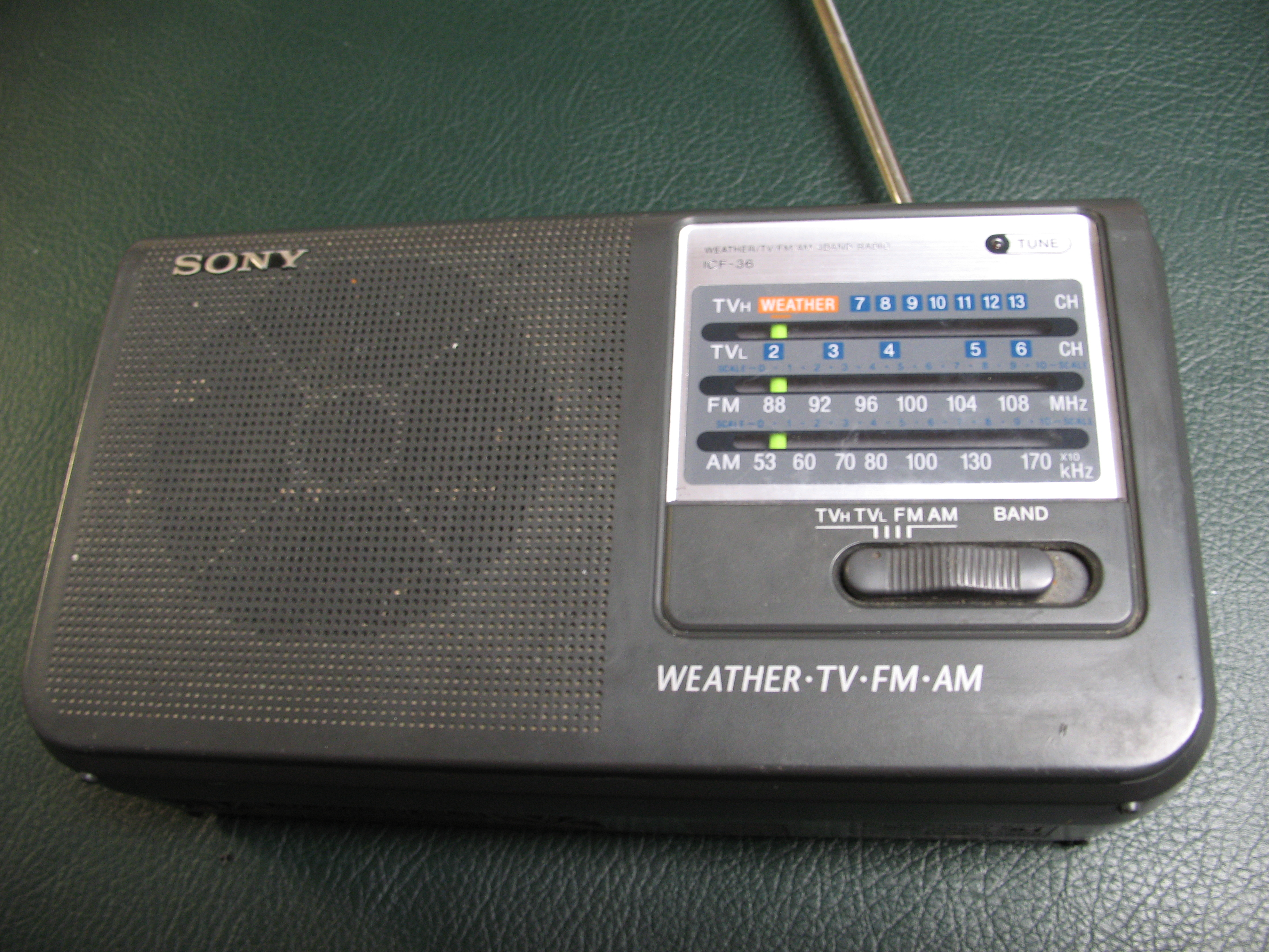 Sony ICF-36 portable radio - tuner bands - weather tv fm am Manufactured in 2001 The analog TV audio reception bands are obsolete and unusable in the United States, following the conversion to Digital TV.